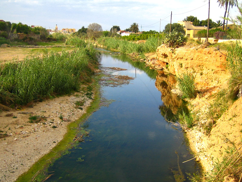 Photo of the river Girona near El Verger, county Marina Alta, Region of Valencia, Spain.